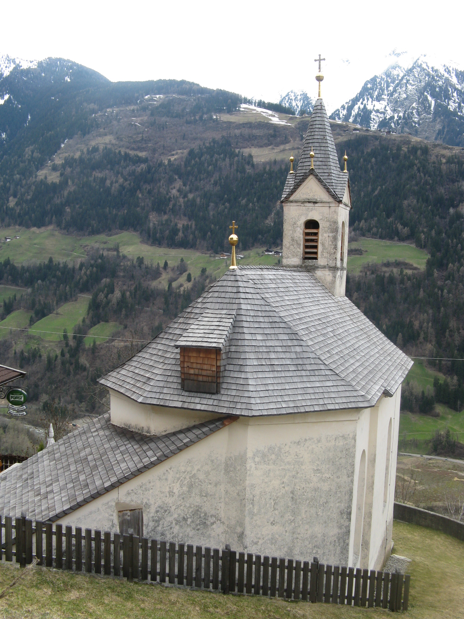 Mörre (pilgrimage chapel), St. Leonhard in Passeier, South Tyrol/Italy